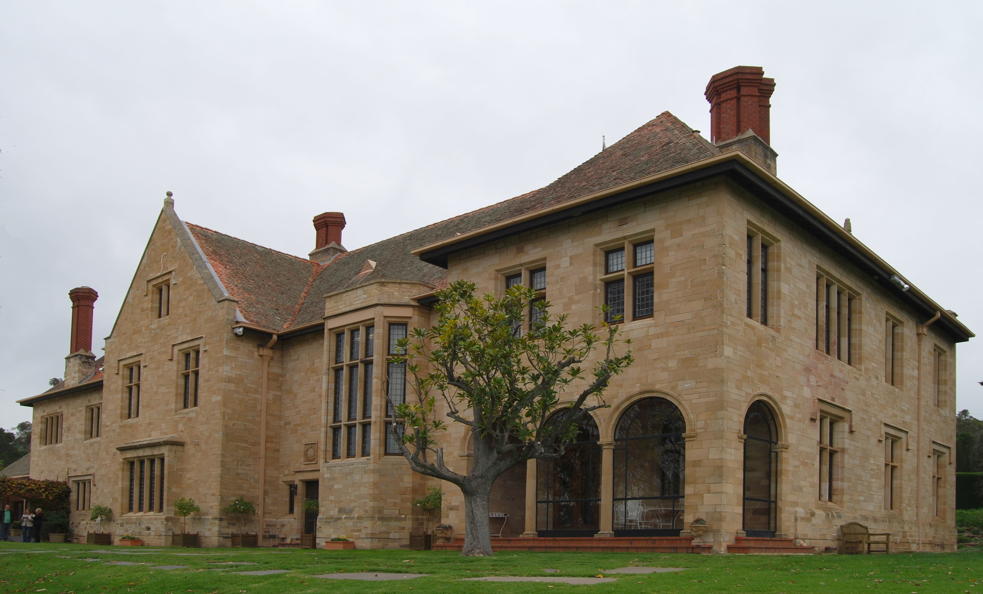 Rear of Carrick Hill house, Adelaide, South Australia.